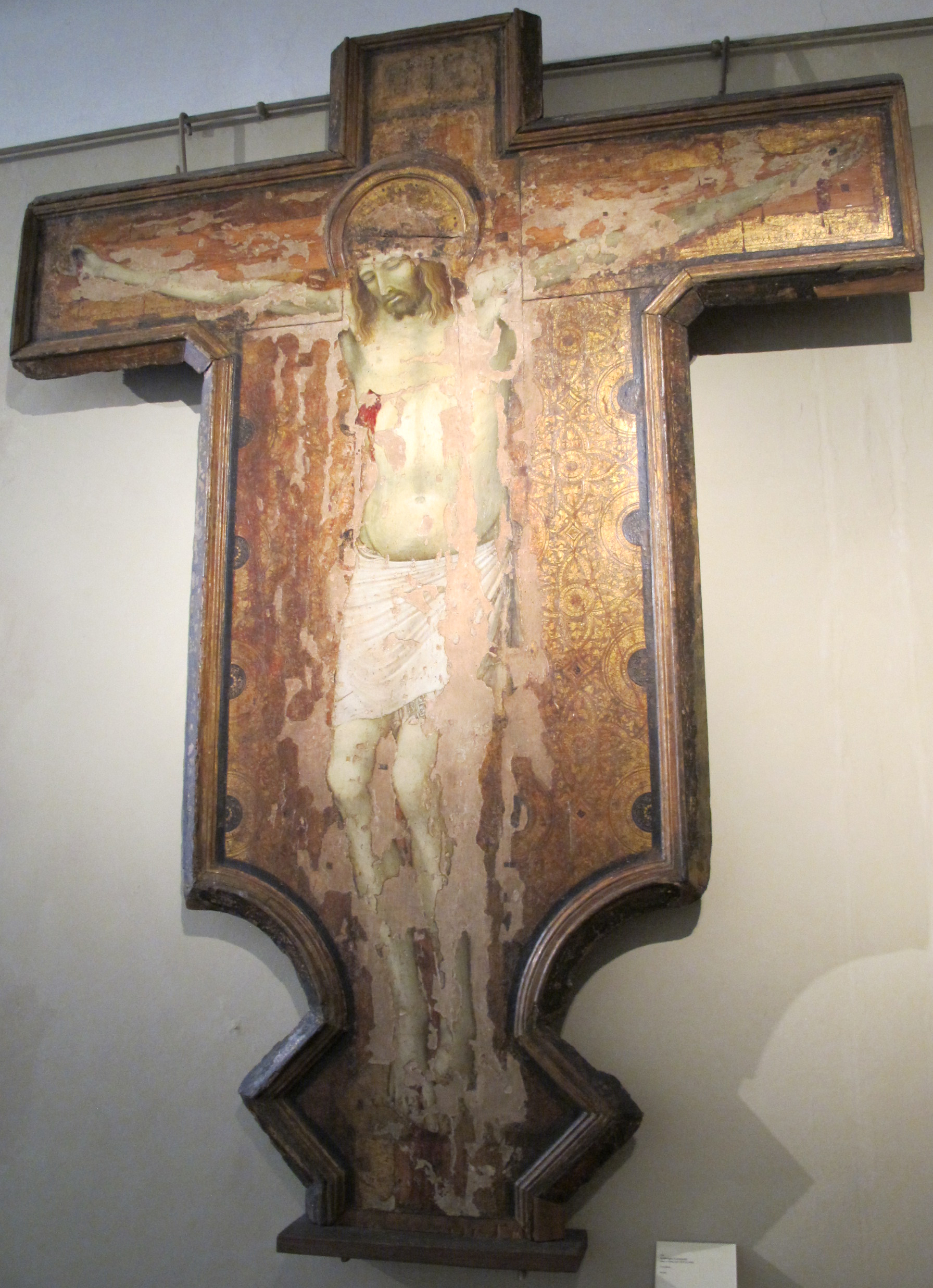 Painting in the National Pinacotheque, Siena